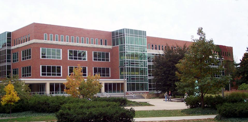 The Michigan State University library is located on the oldest part of campus between Beaumont Tower and the Red Cedar River.